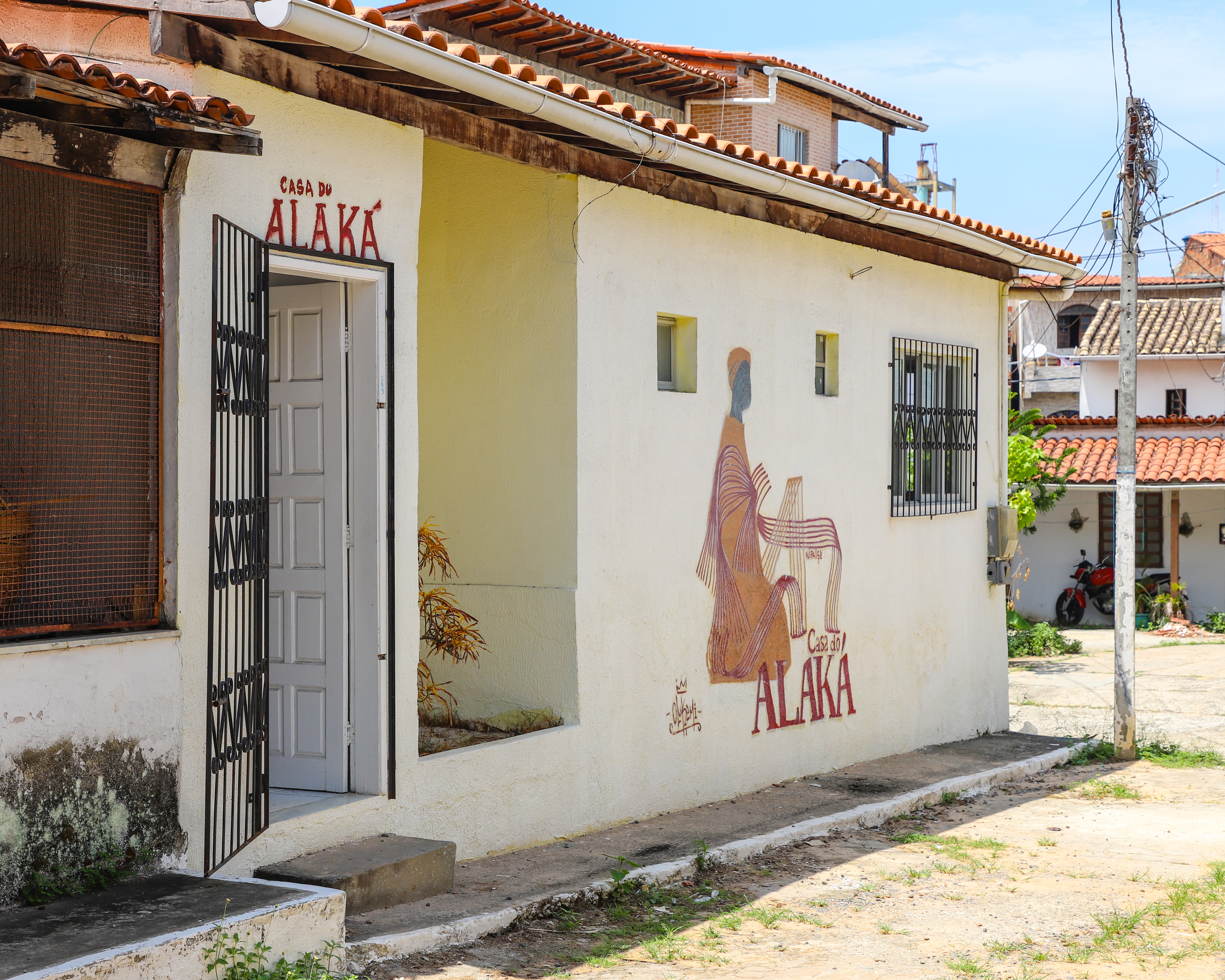 Casa do Alaká, Ilê Axé Opô Afonjá, Salvador, Bahia, Brazil. "The African alaká cloth, known as pano-da-costa in Brazil, is produced by weavers from Ilê Axé Opô Afonjá, a Candomblé terreiro, in Salvador, in a workspace called Casa do Alaká."